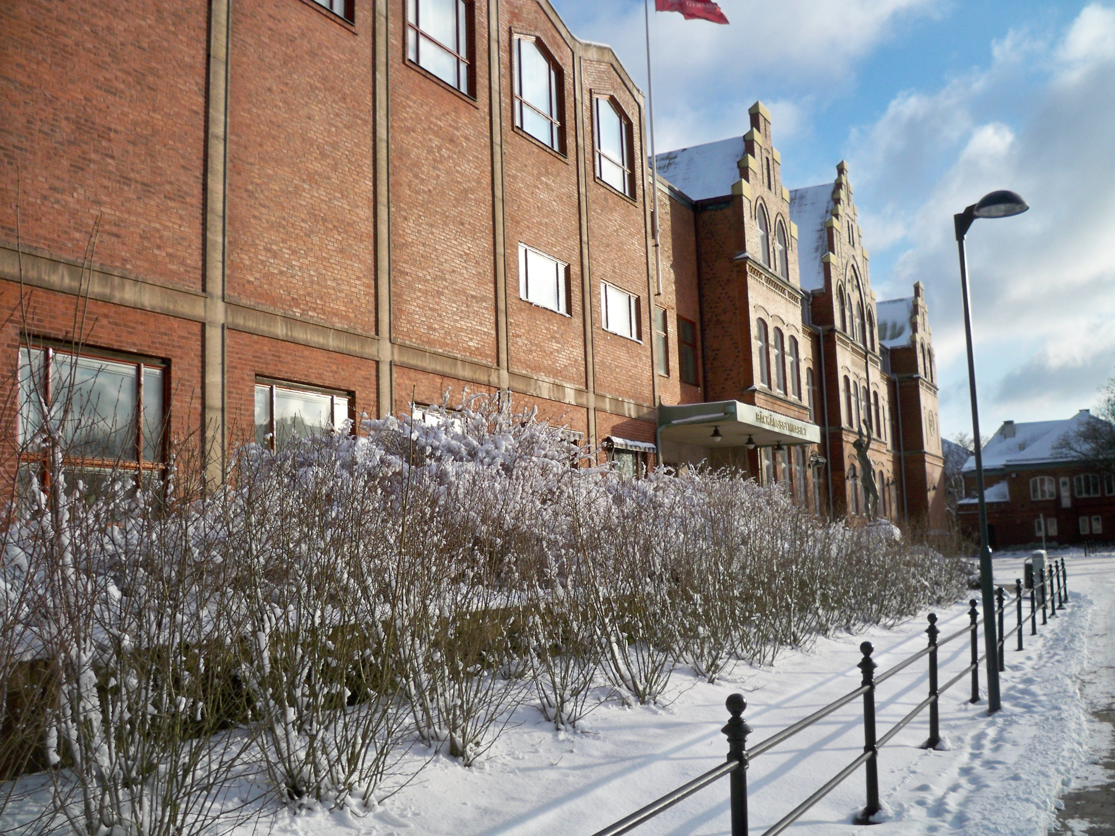 Bäckängsgymnasiet is a gymnasium (sort of high-school) in the city of Borås, Sweden. It is aiming at arts subjects and the humanities. It was built in 1901/1902 after plans by the Swedish architect Lars Kellman (1857-1924). Newer addition by Hugo Häggström in 1949